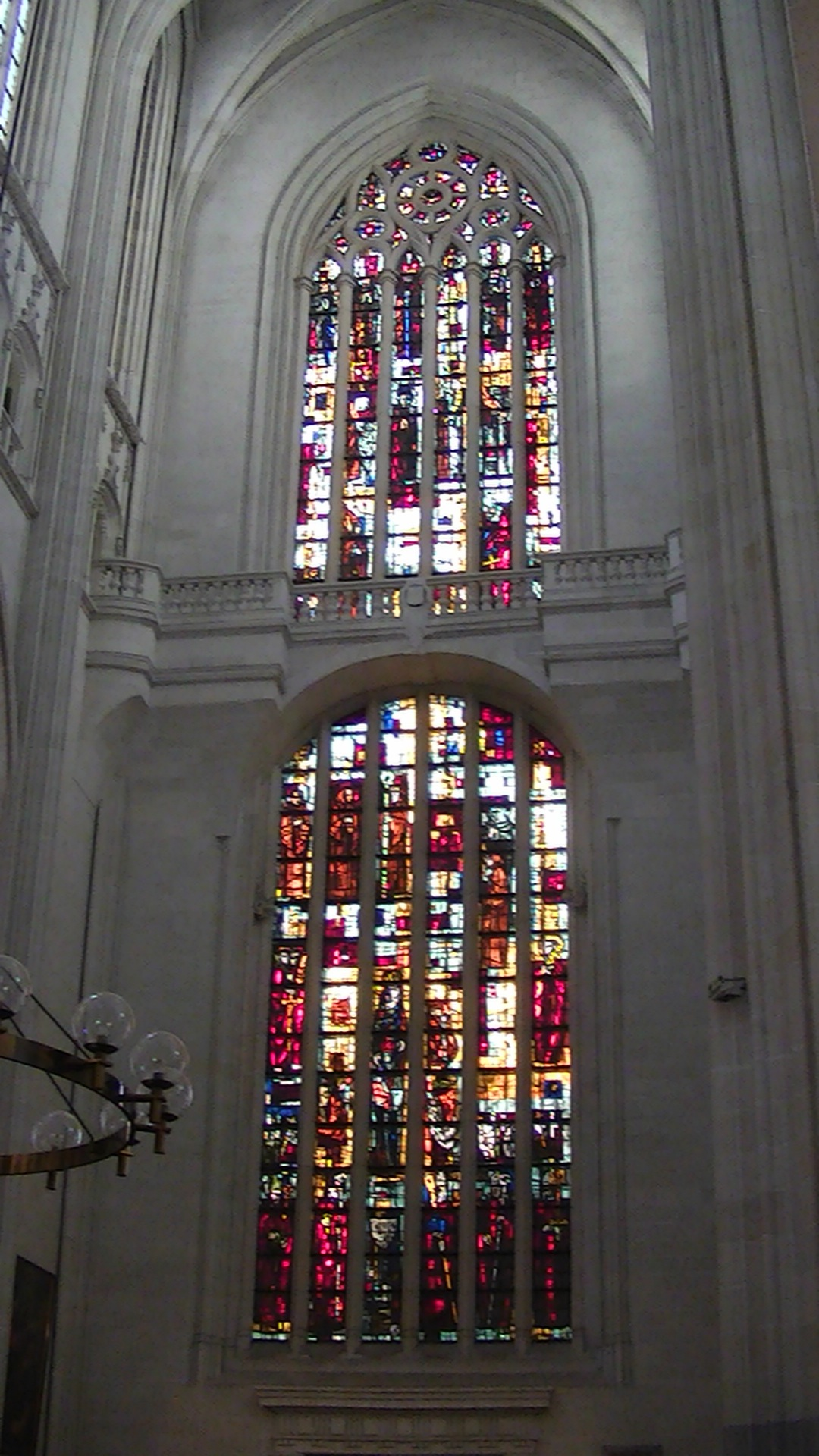 South stained glass window in Nantes Cathedral